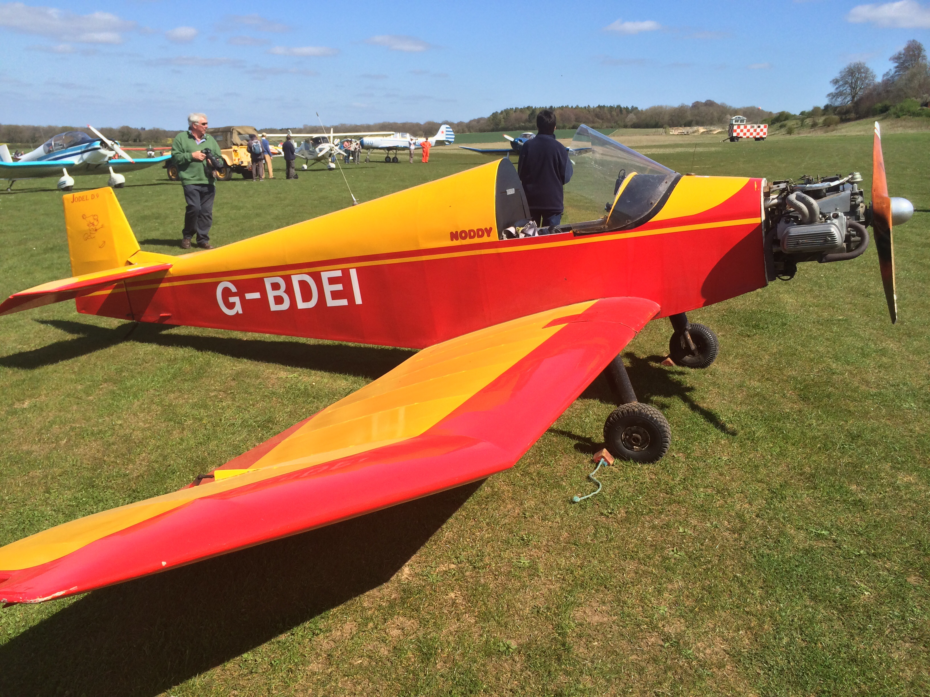 At Popham Airfield